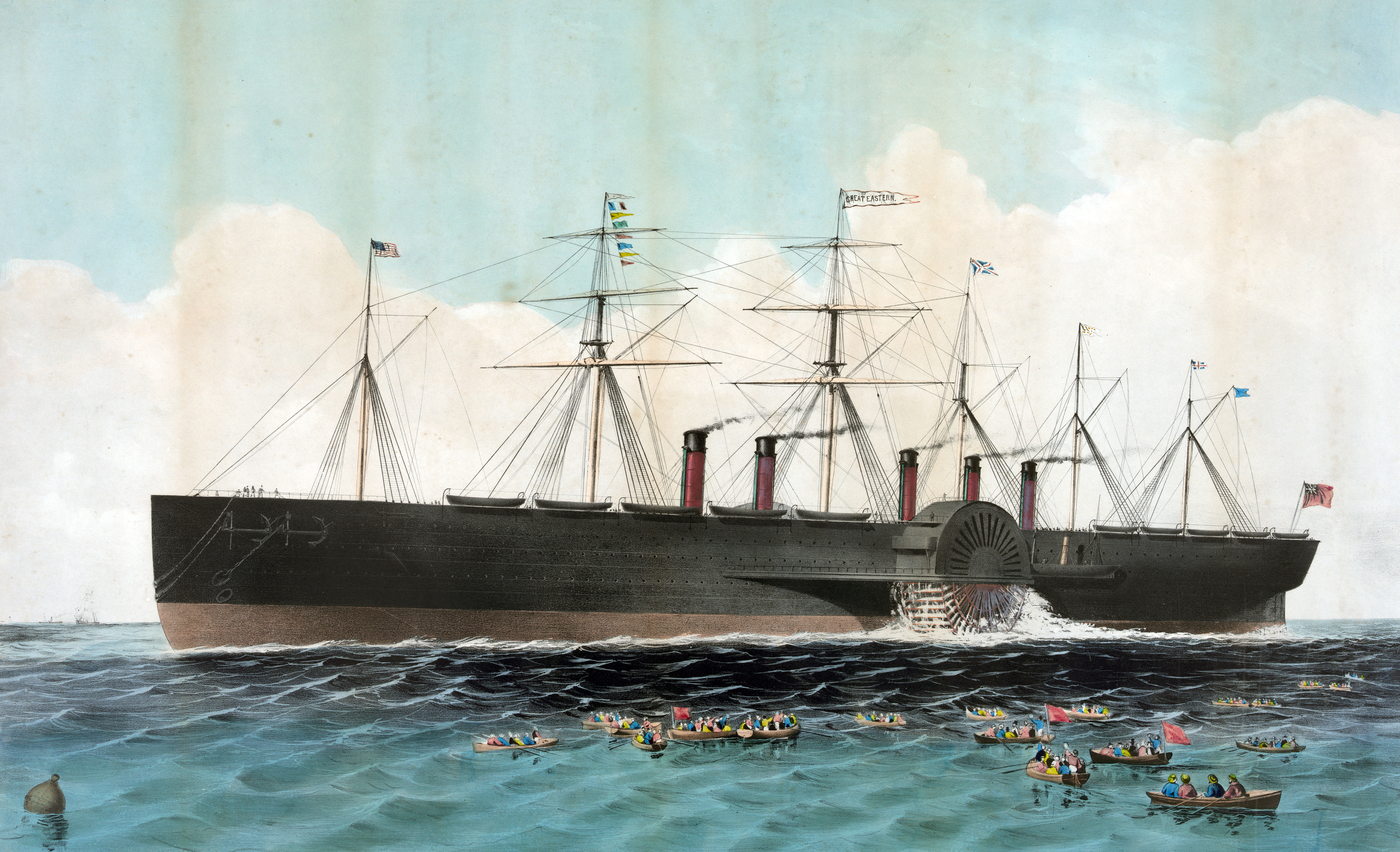 Hand-colored lithograph of the SS Great Eastern